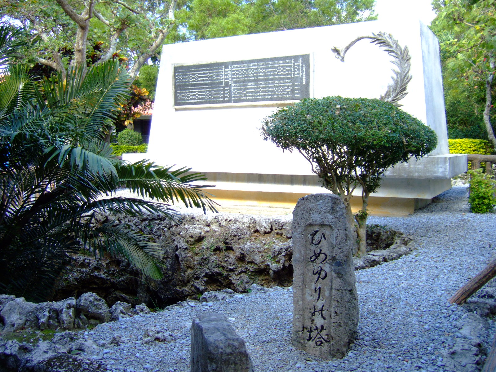 The Himeyuri Memorial Monument (angle 2)